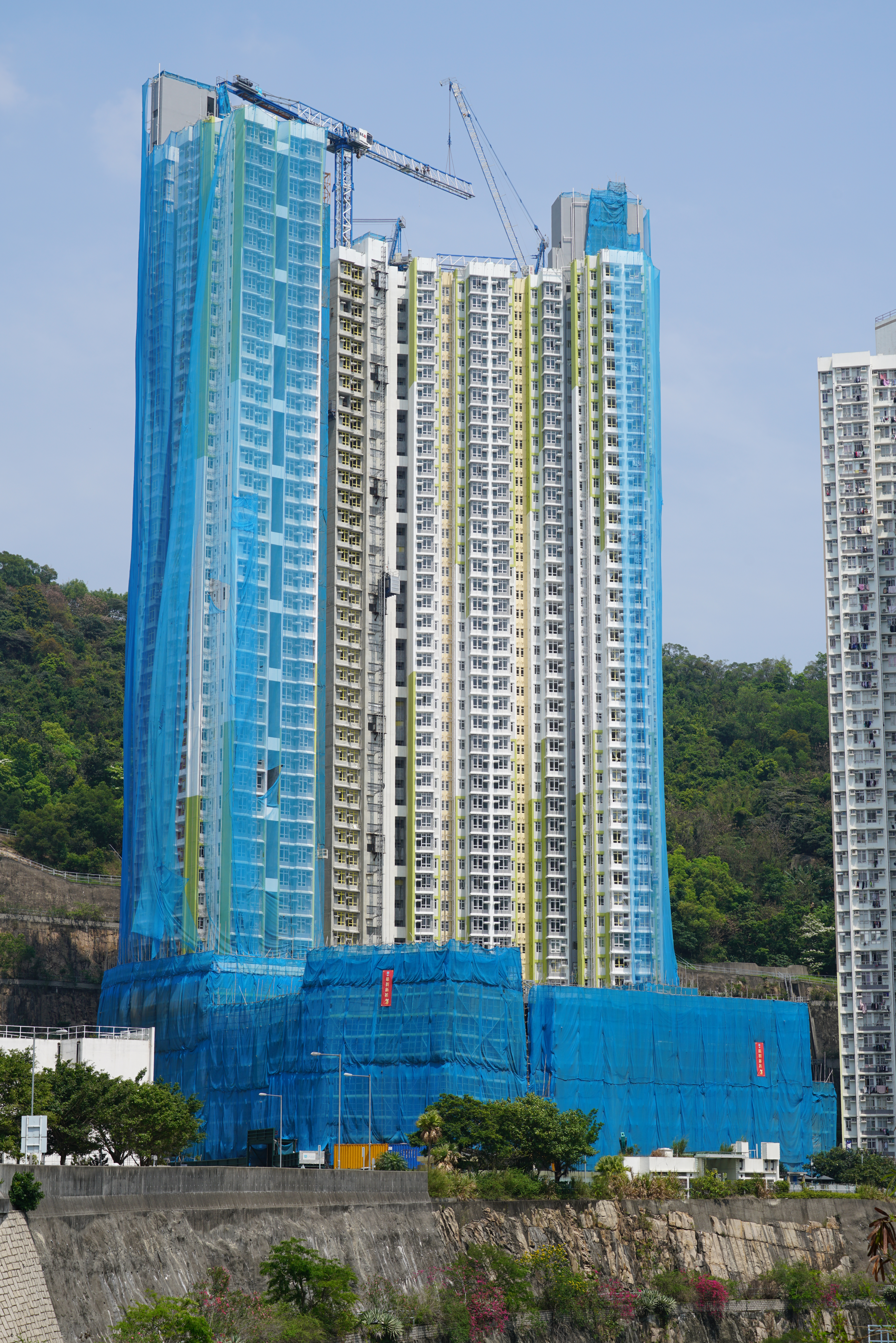 Choi Fook Estate, Hong Kong.